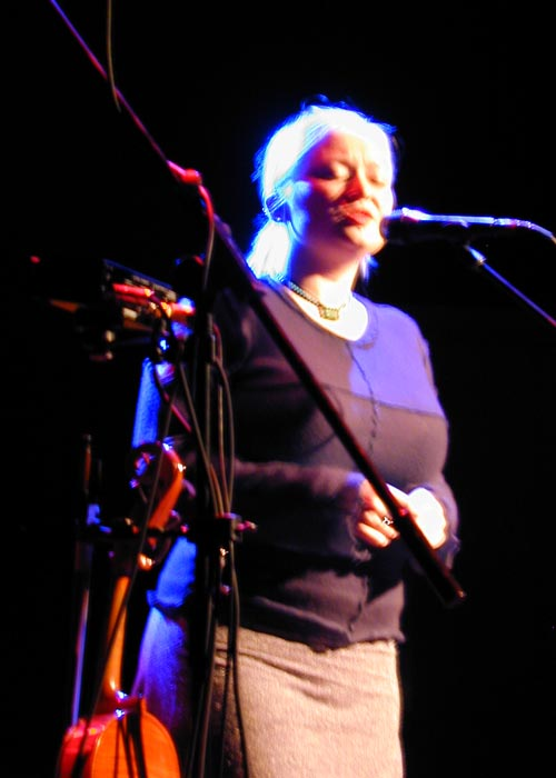 Eliza Carthy at the Junction, Cambridge, 2005/03. By William M. Connolley.